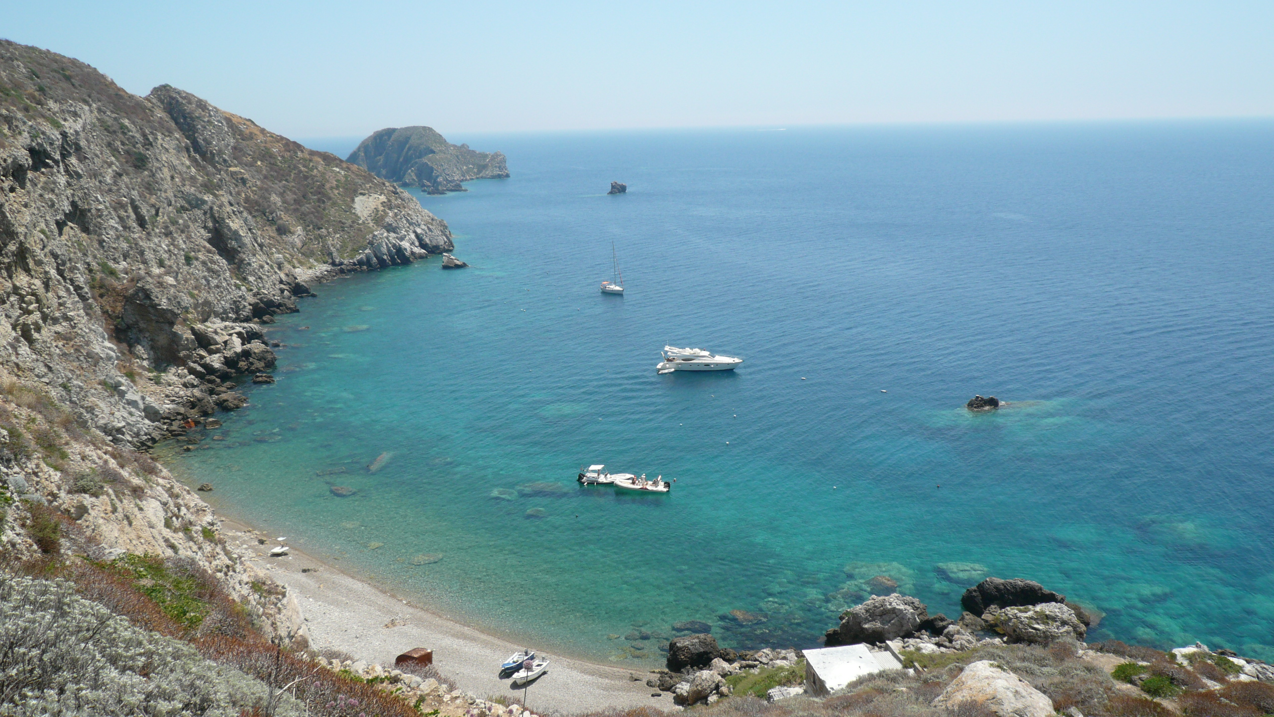 Southern Beach at Palagruža.